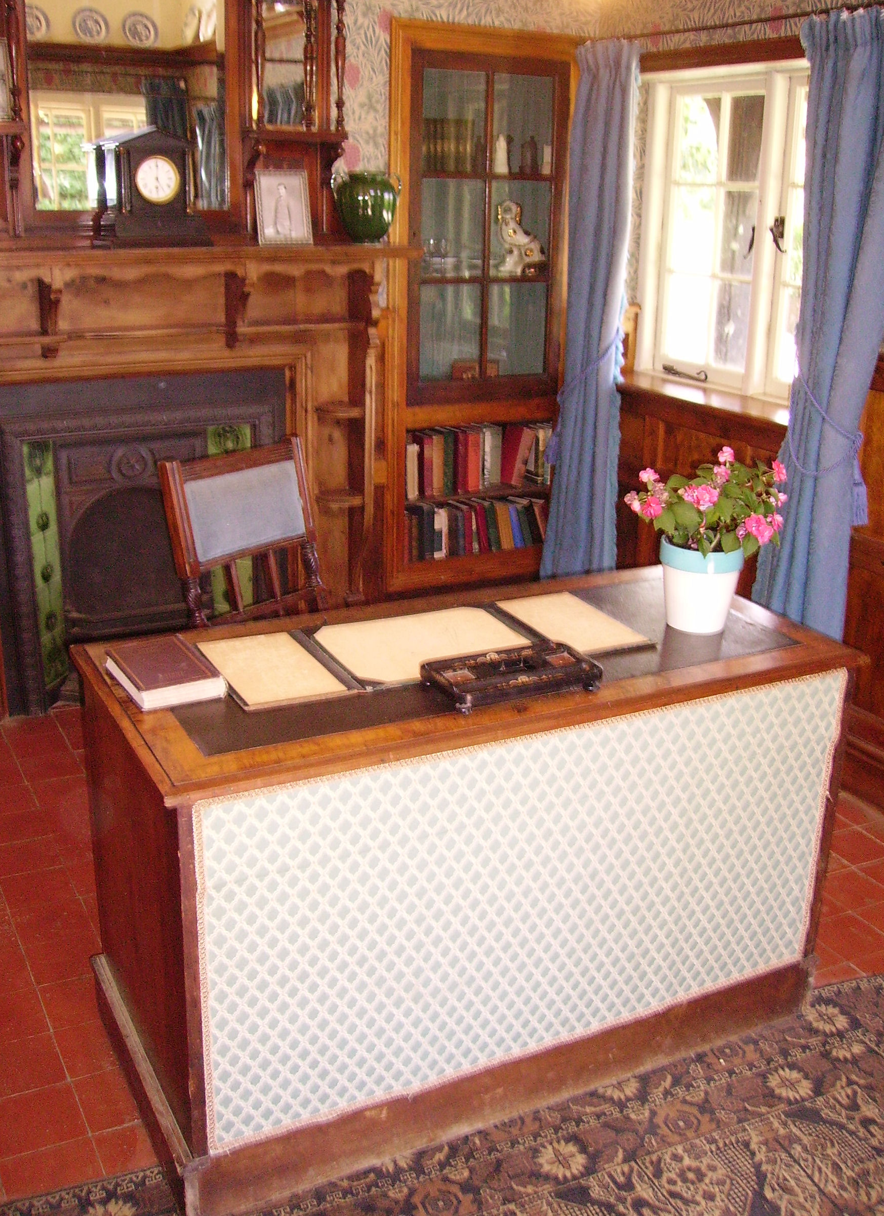 View of Arthur Conan Doyle's writing room. At Groombridge Place near Groombridge, United Kingdom